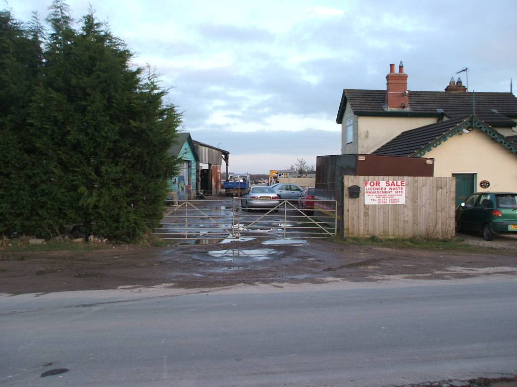 Garton railway station (site), Garton on the Wolds, East Riding of Yorkshire, England.Opened in 1853 by the Malton & Driffield Railway, this line soon became part of the North Eastern Railway empire. The station closed in 1950 to passengers, and completely in 1958. View east towards Driffield.